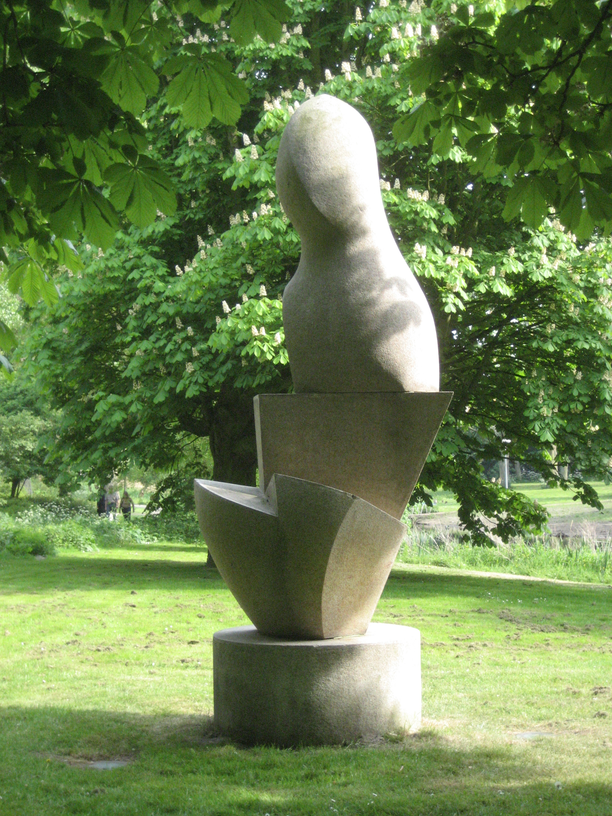 Sculpture by Jean Arp, Bezuidenhoutseweg, The Hague (The Netherlands). Scrutant l'horizon (1967)